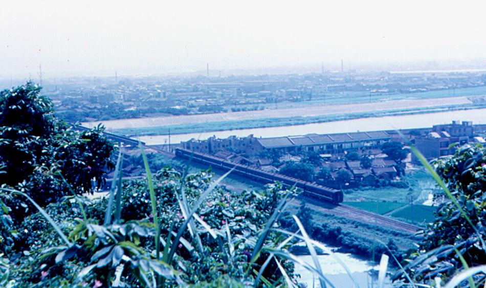 Looking southwest from Grand Hotel grounds, to part of Taipei, Keelung River, and a railroad [Note: TRA Tamsui Line]. This photo is geotagged with the camera location.